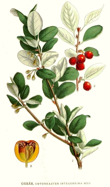 Cotoneaster integerrimus Med. Original Description Oxbär, Cotoneaster integerrima Med.